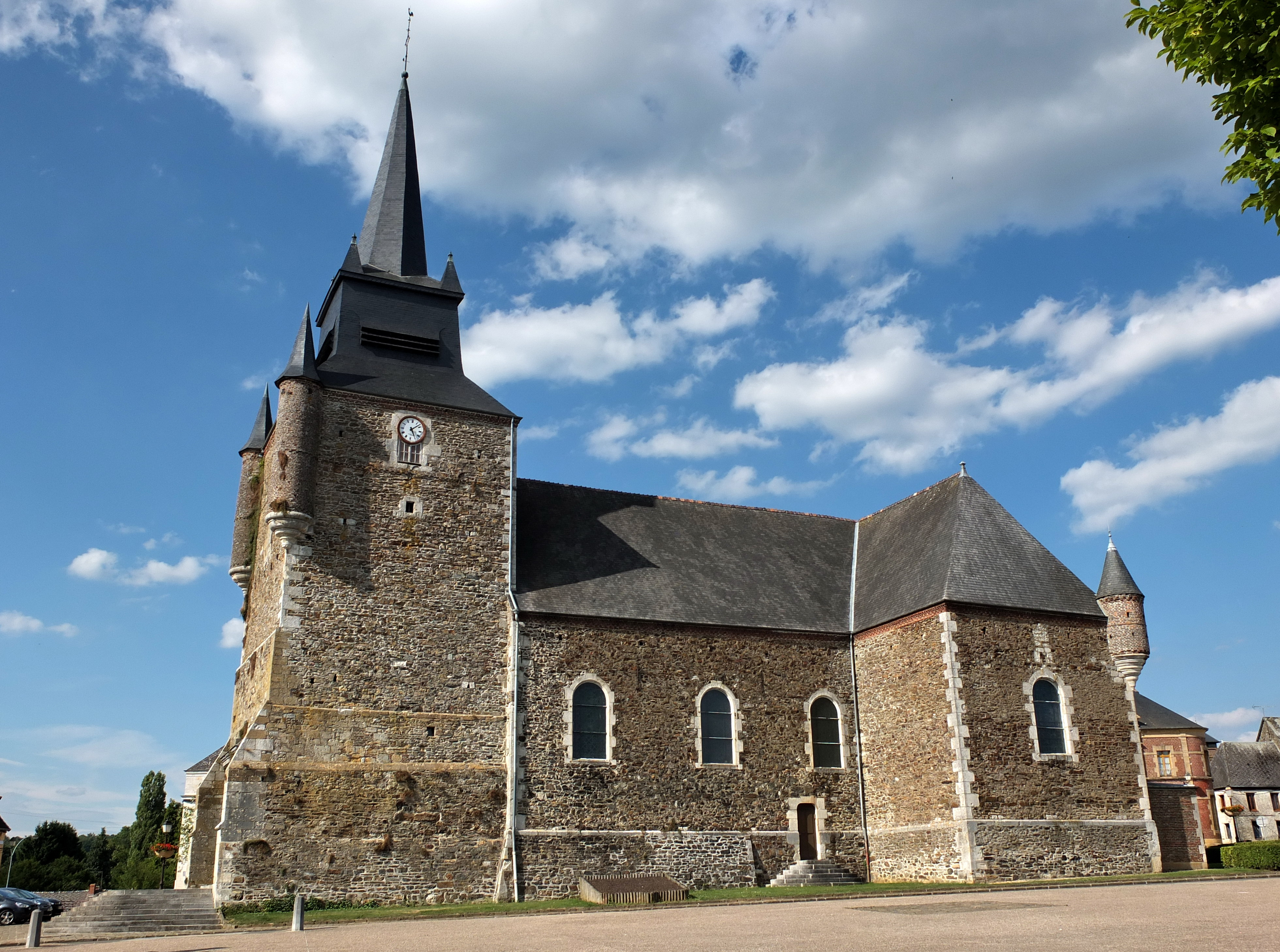 Fortified church of Thiérarche, Ardennes -France (XVII)